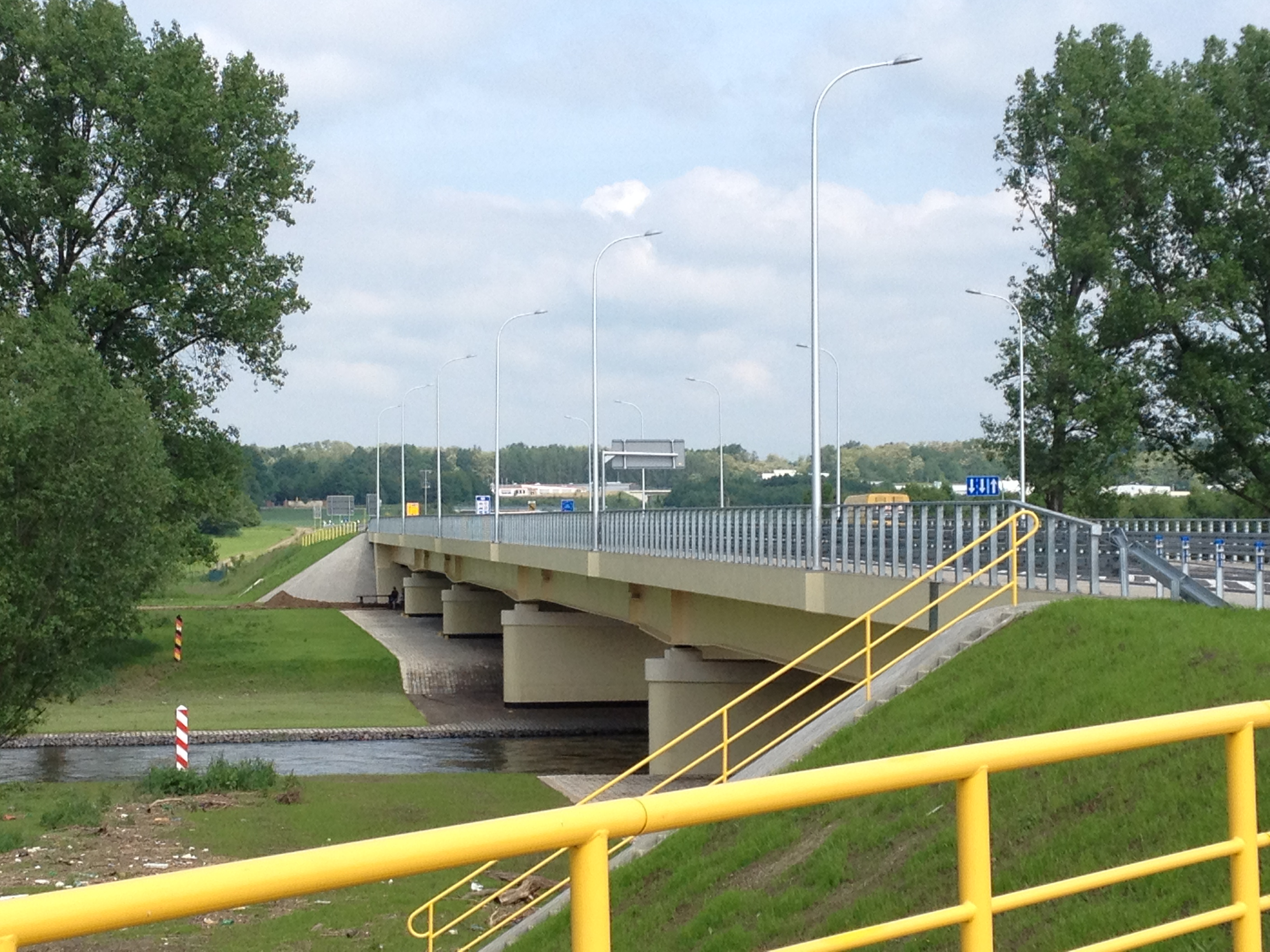 Starting point of the federal road B 178 on the border bridge